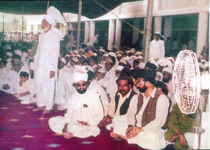 This picture show an urs ceremony at Golra Sharif being presided over by the Sajjada Nashin, i.e. Syed Ghulam Mohiyuddin Gilani. Both his sons can also be seen.